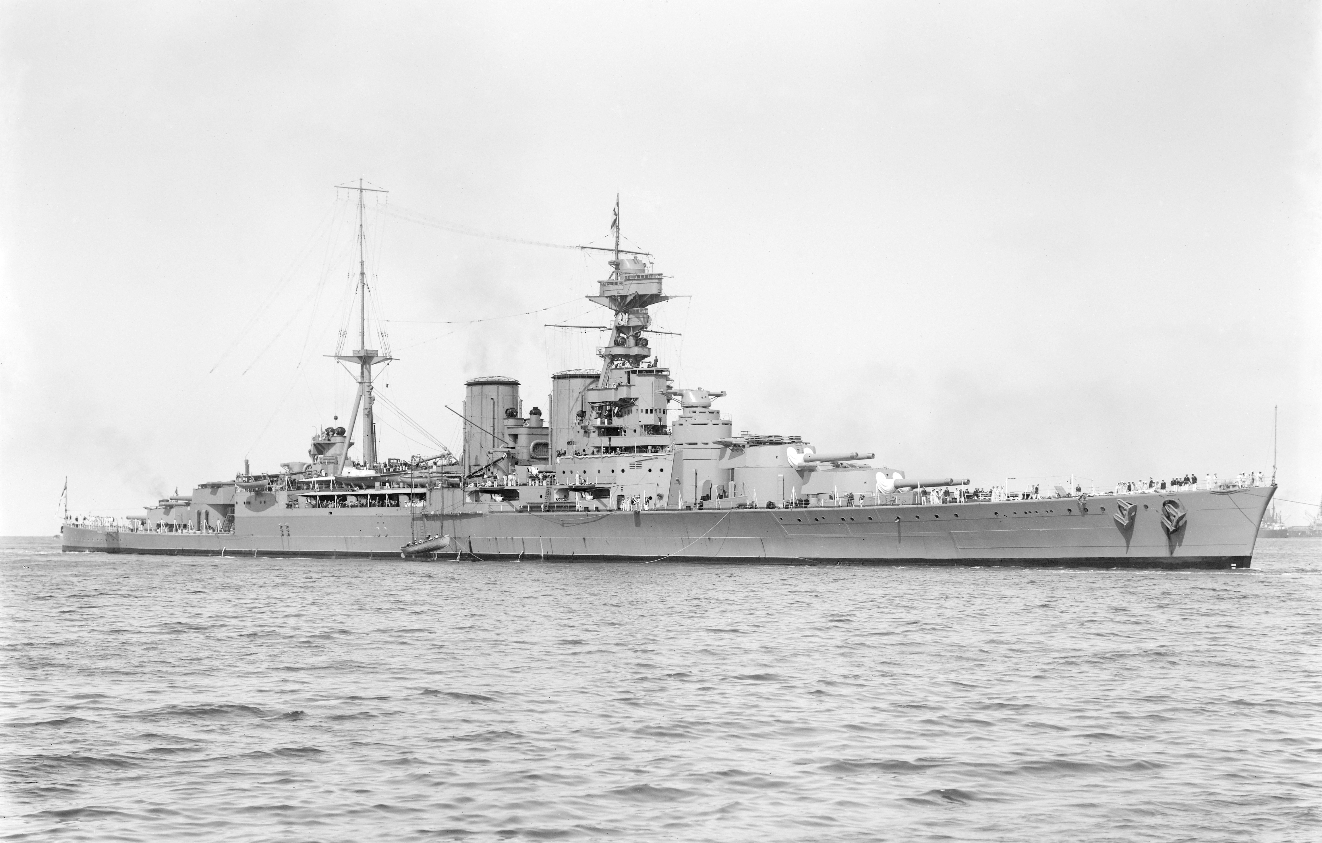 HMS Hood